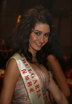 Miss Bulgaria 2007, Paolina Racheva, in Miss World 2007, Sanya, China